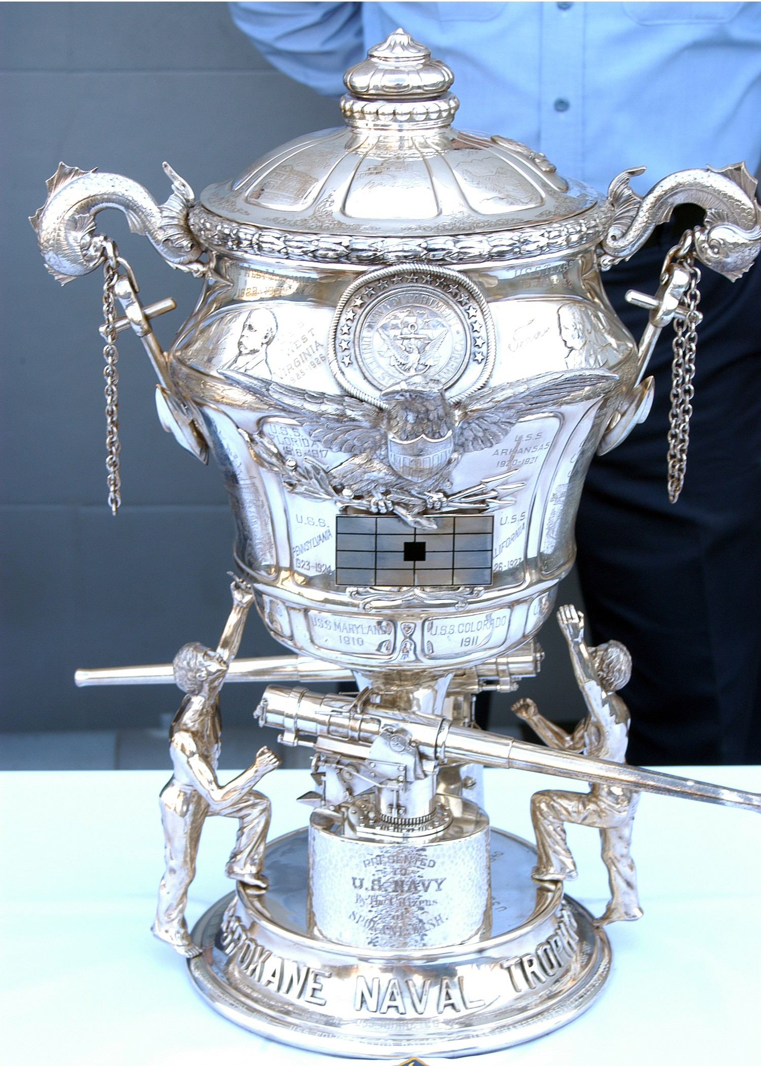 San Diego, Calif. (May 3, 2004) — Adm. Walter Doran, Commander, U.S. Pacific Fleet, presented the officers and Sailors of the guided missile cruiser USS Princeton (CG-59) the 2003 Spokane Trophy award. Princeton was awarded the trophy after displaying overall excellence in surface ship combat system readiness and warfare operations during work-ups and missions in support of Operation Iraqi Freedom (OIF). The actual Spokane Trophy is made of 400 ounces of silver and is valued at $4 million.